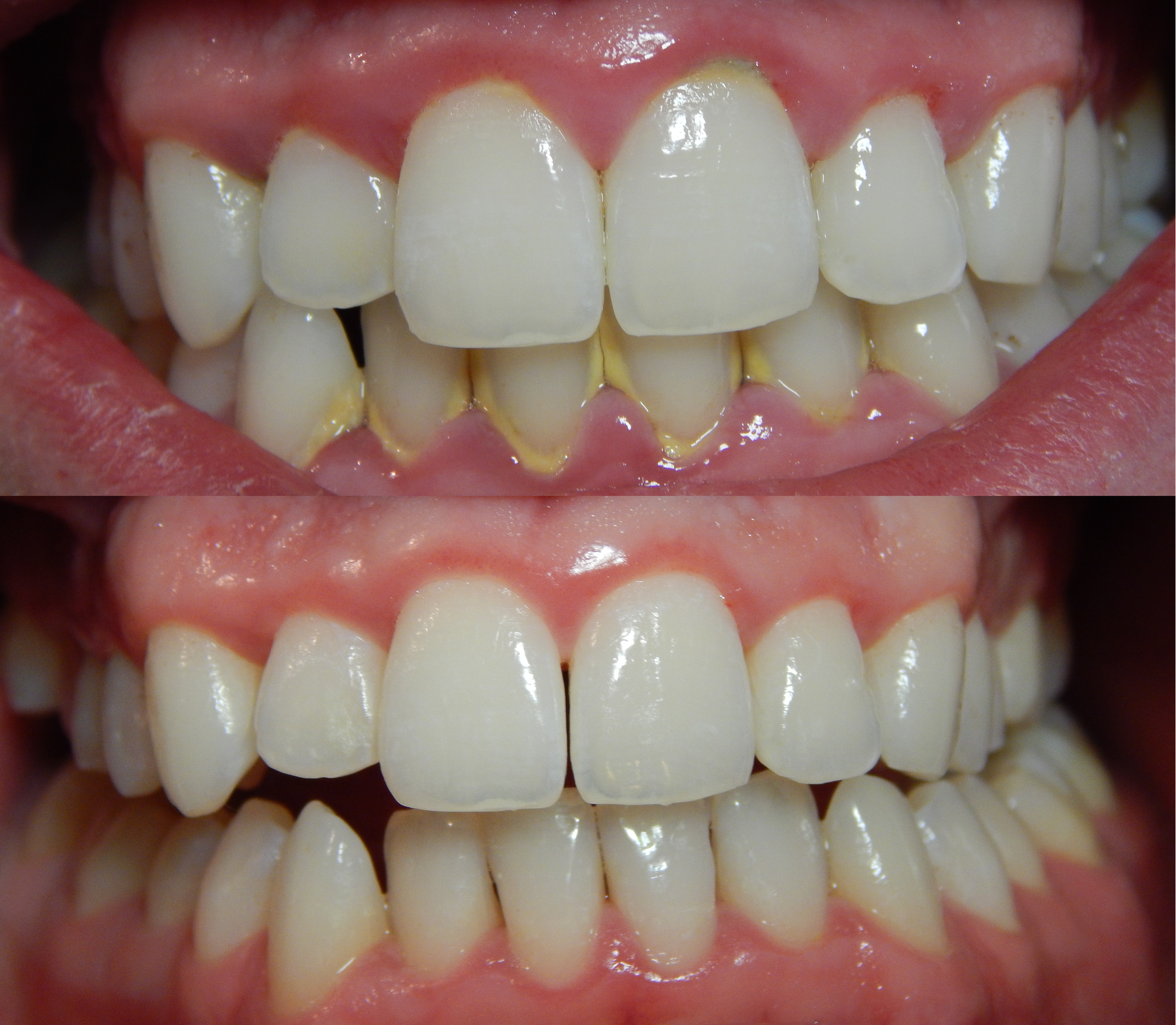 Gingivitis before and after scaling. (nine days between pictures).